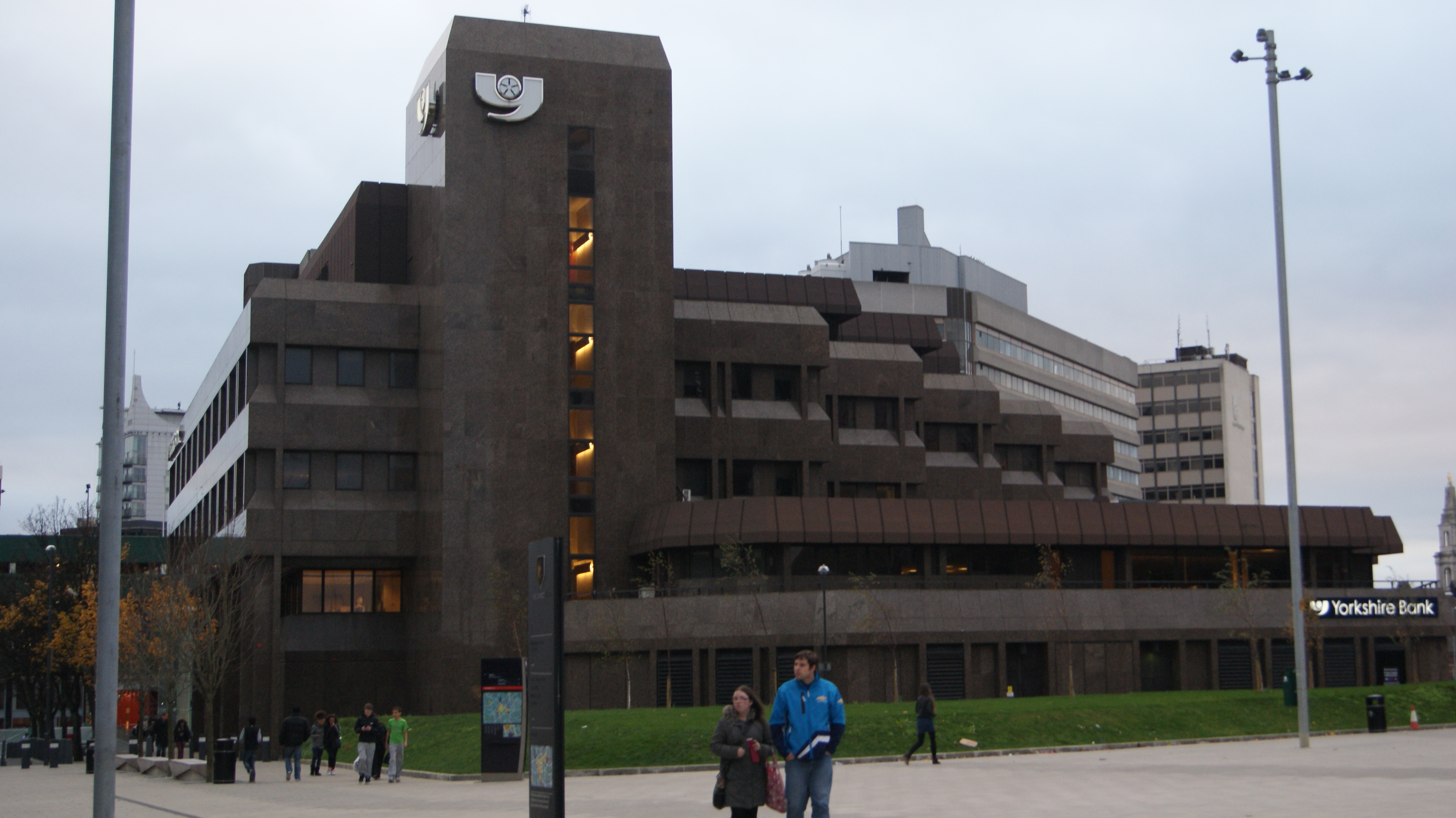 Yorkshire Bank headquarters, Leeds, West Yorkshire. Taken on the afternoon of the 16th of November 2013.